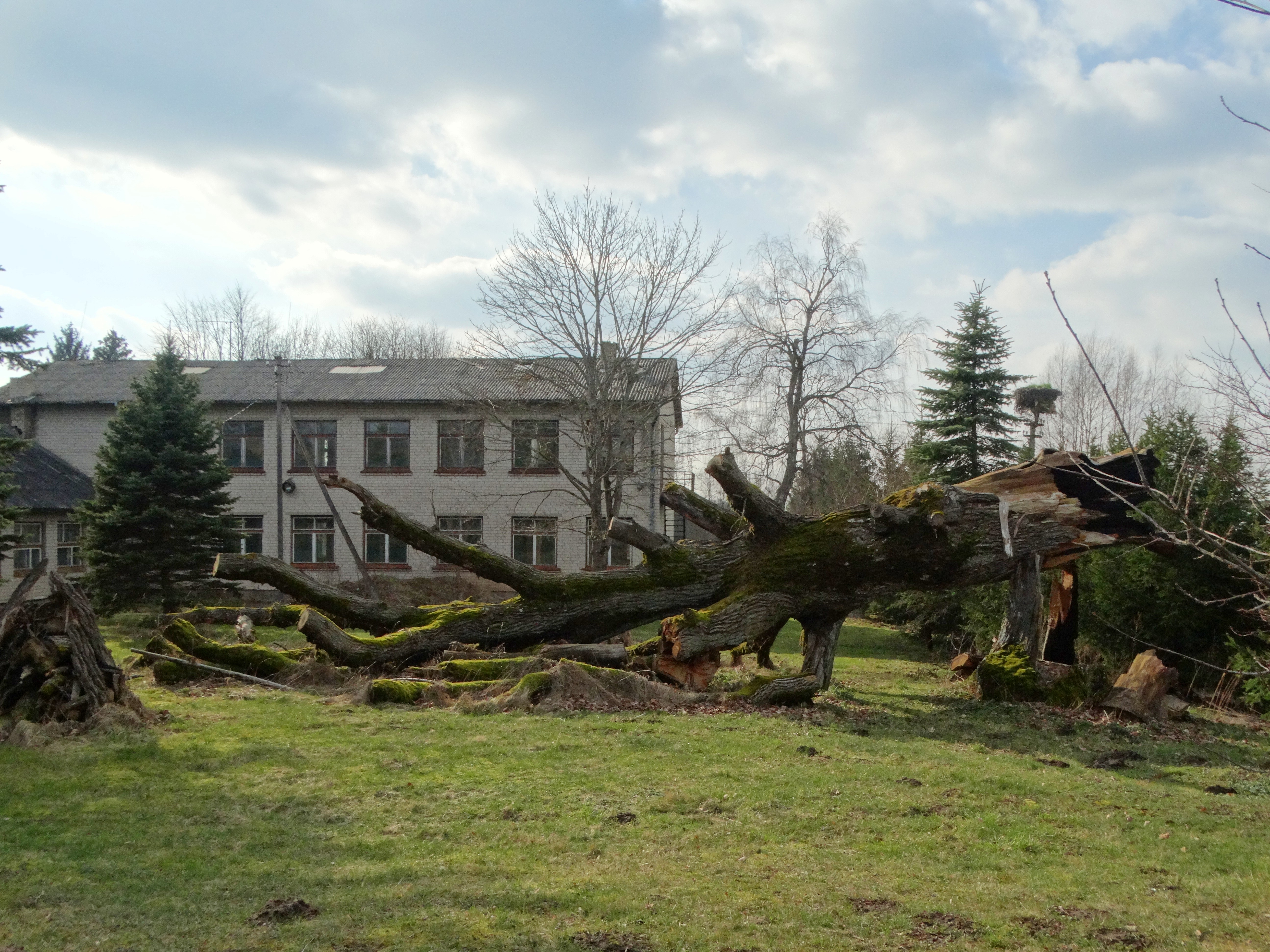 Brožiai, former school, Klaipėda District. Lithuania